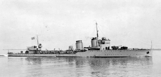 The Swedish destroyer HMS Psilander.